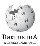 A logo for Wikipedia in the Tajik language.